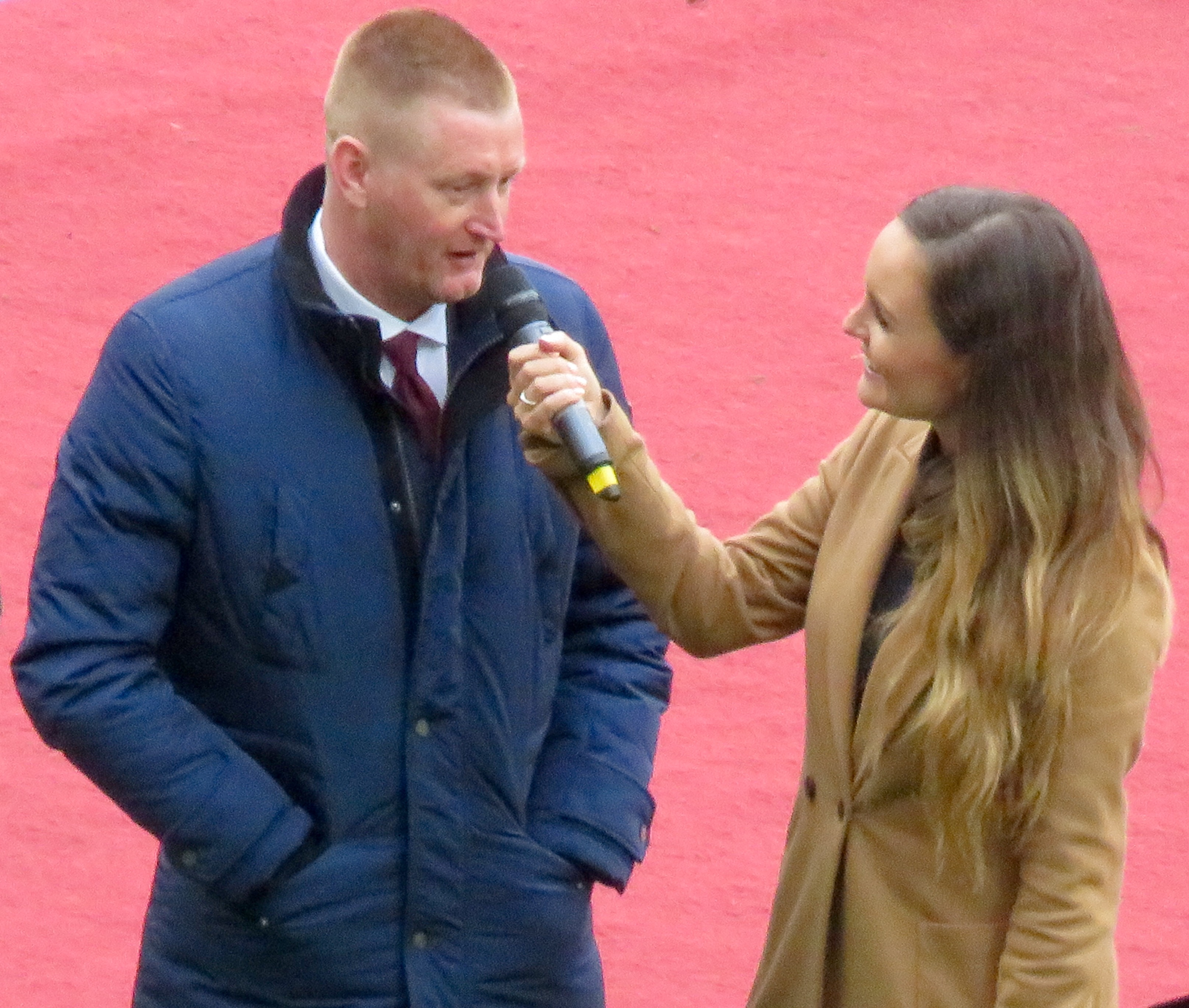 Former West Ham United and Manchester City player, Steve Lomas, being interviewed during their Premier League game at the London Stadium.